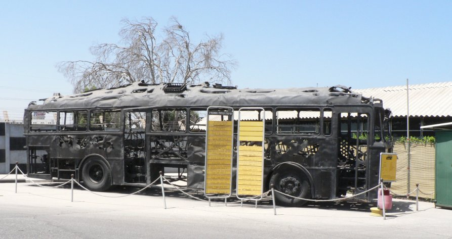 The charred remains of an Israeli bus, attacked by Palestinian terrorists in 1978 Coastal Road Massacre.